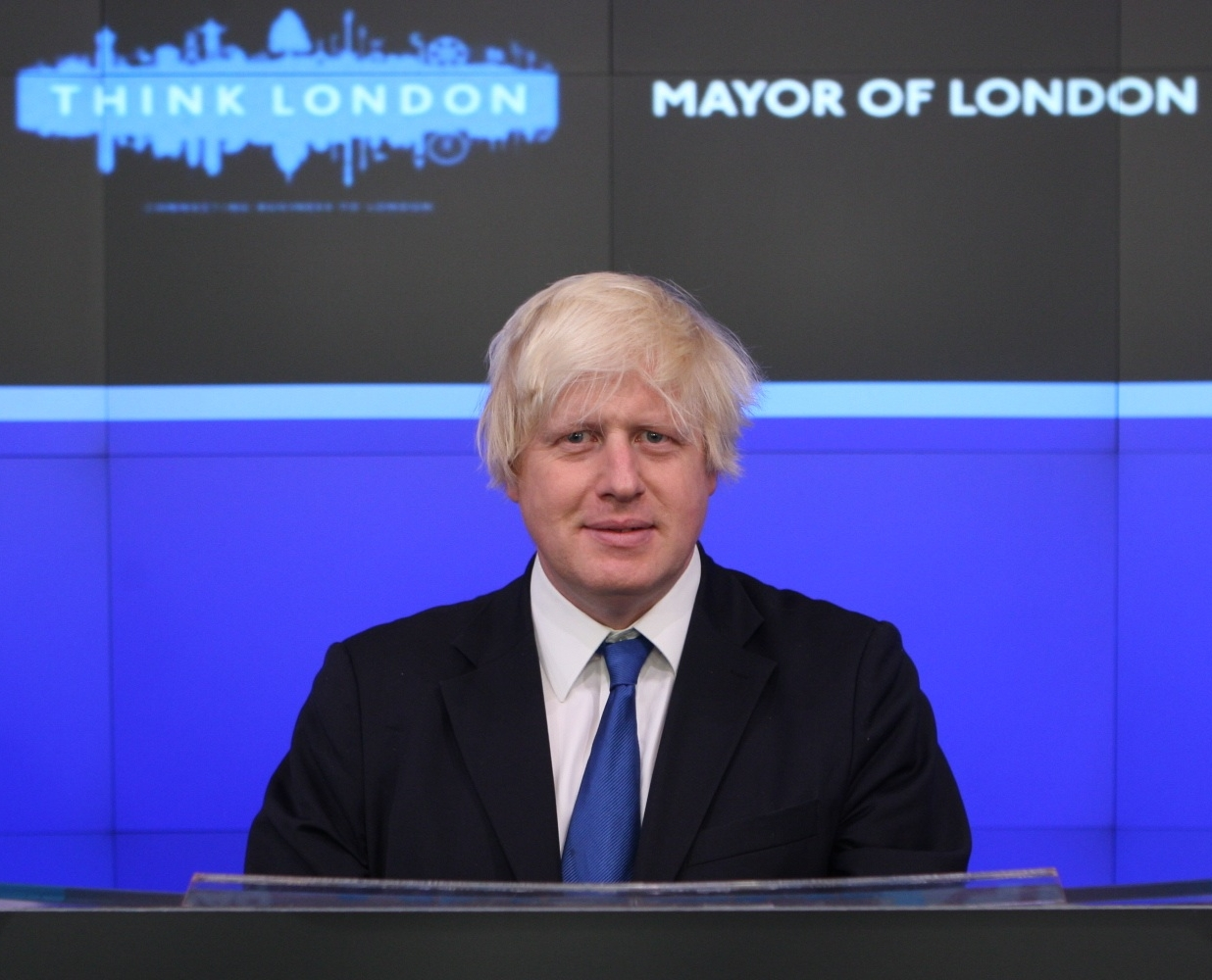 Mayor of London, Boris Johnson poses for a photo prior to ringing the opening bell at NASDAQ on September 14, 2009.